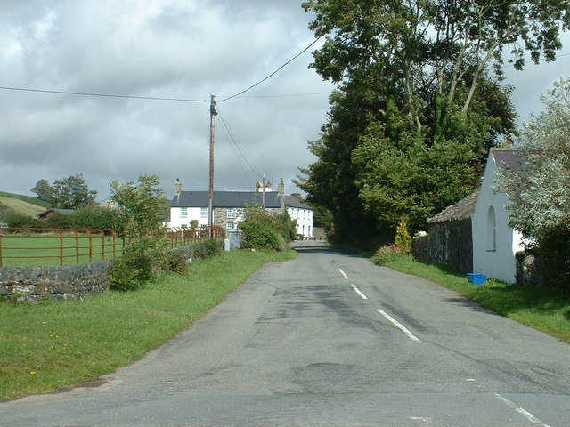 Llangybi village. Looking north east.